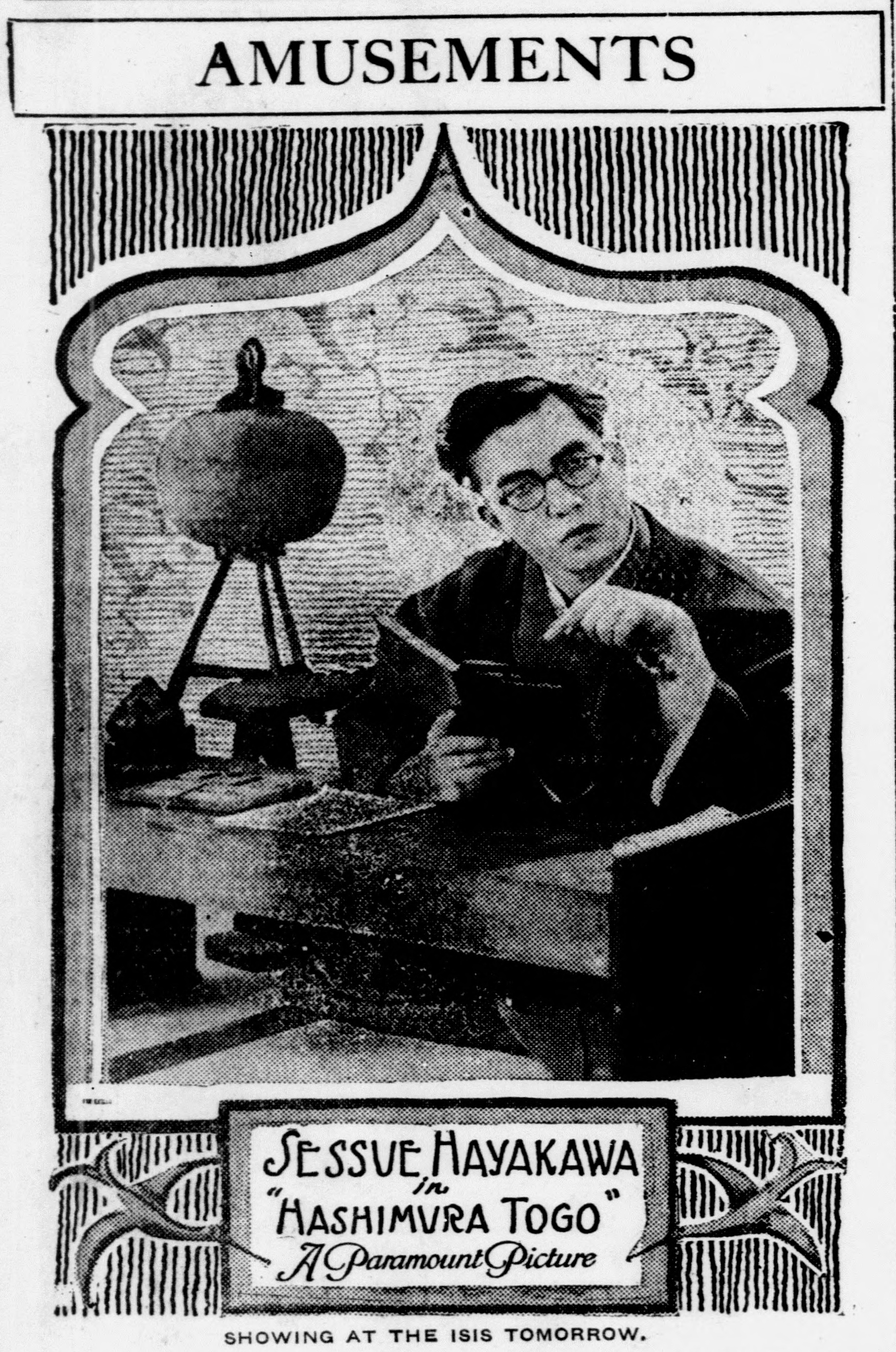 Hashimura Togo is a 1917 American comedy silent film directed by William C. deMille and written by Marion Fairfax and Wallace Irwin.